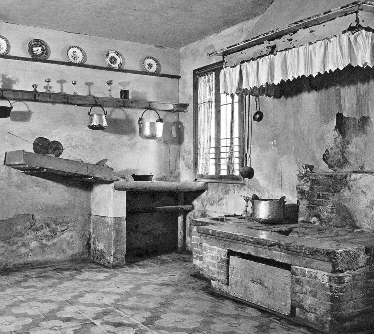 Photo of kitchen in -riese of Sarto family (Pope Pius X )